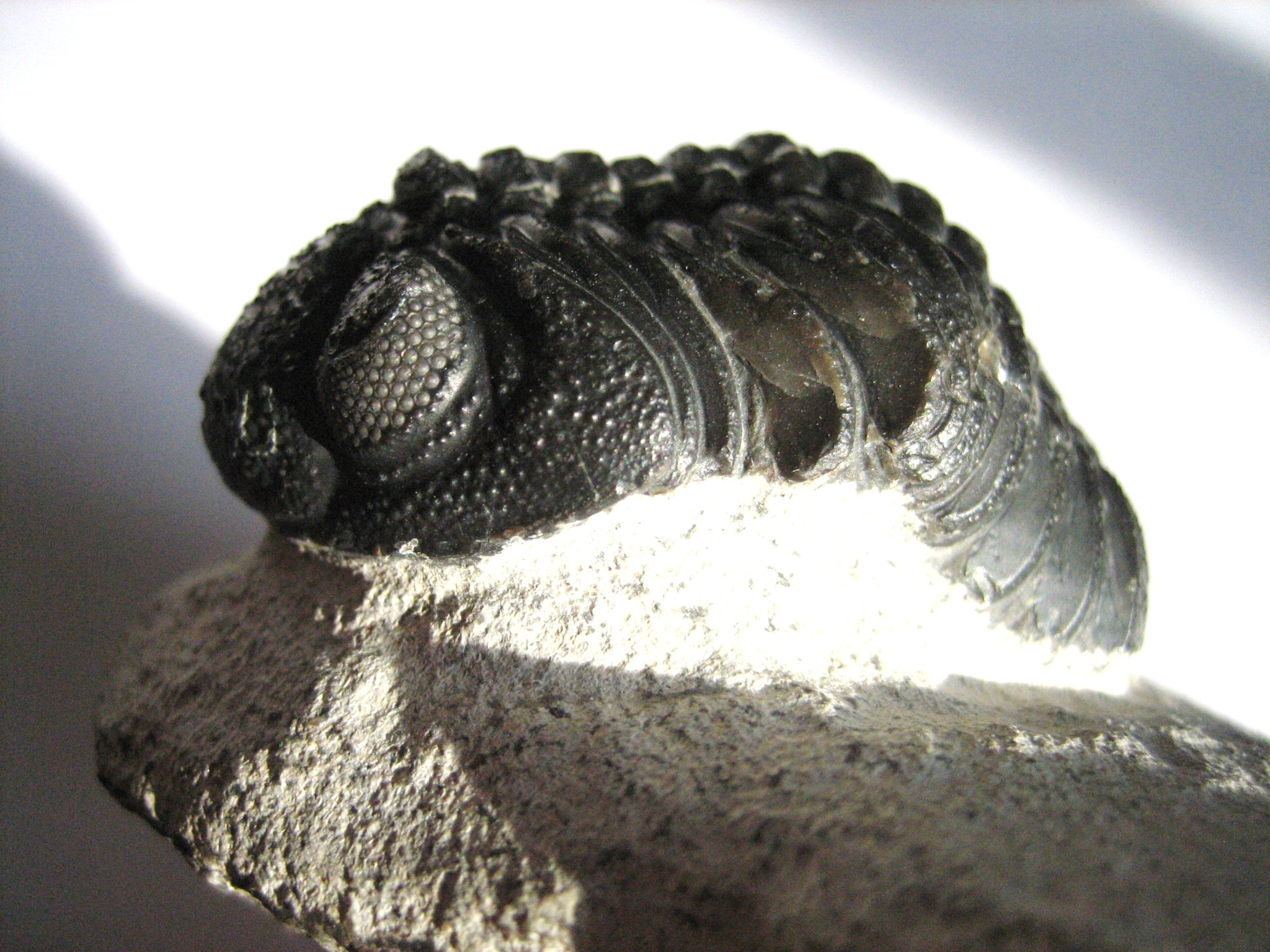 Schizochroal Eye of Phacops (sub genus Barrandeops) sp. Paleozoic Middle Devonian (398-385 MA) Anti-Atlas Mountains, Morocco